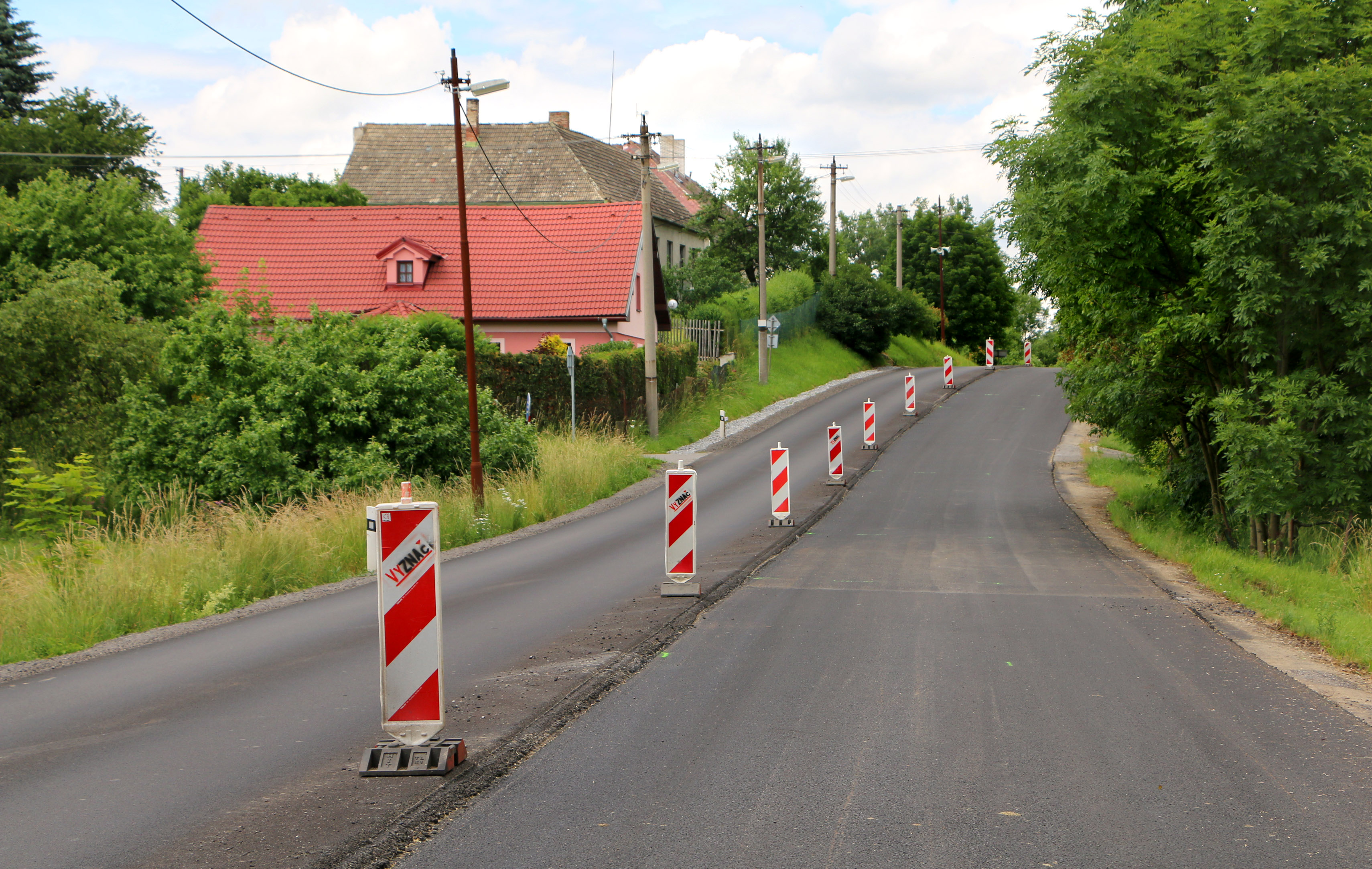 Road No 38 in Prostředkovice, part of Suchá, Czech Republic.